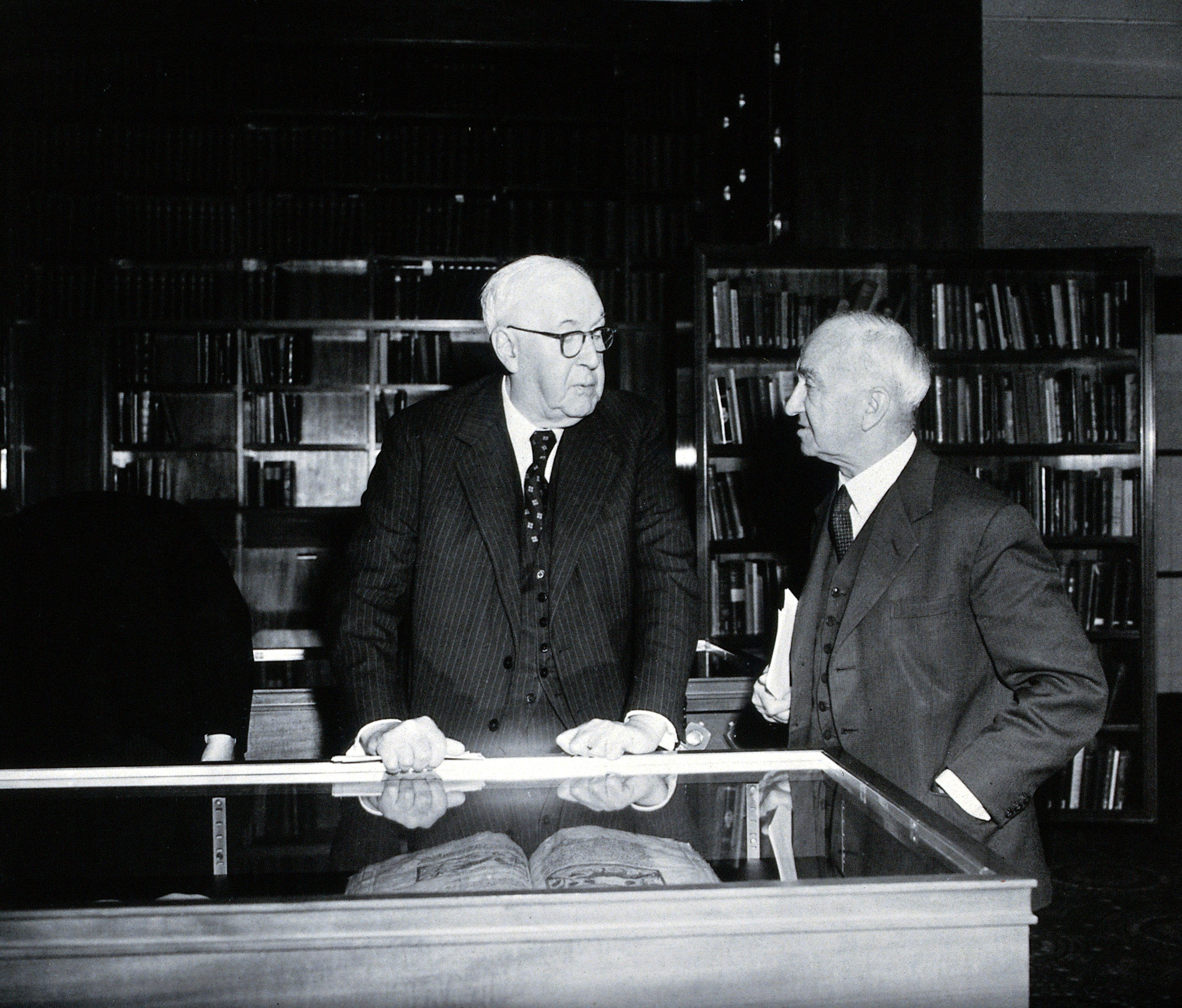 Sir Henry Hallett Dale and Sir Zachary Cope, 1962. Photograph. Iconographic Collections Keywords: portrait photographs